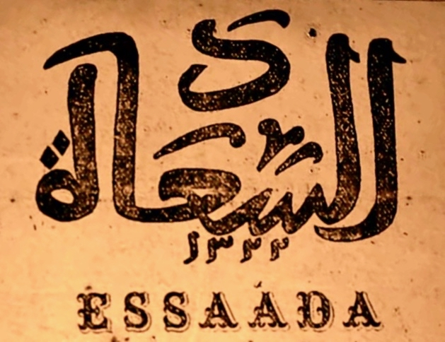 Logo of es-Saada (السعادة), an arabophone Moroccan newspaper supported by the French government, from 11 September 1905.